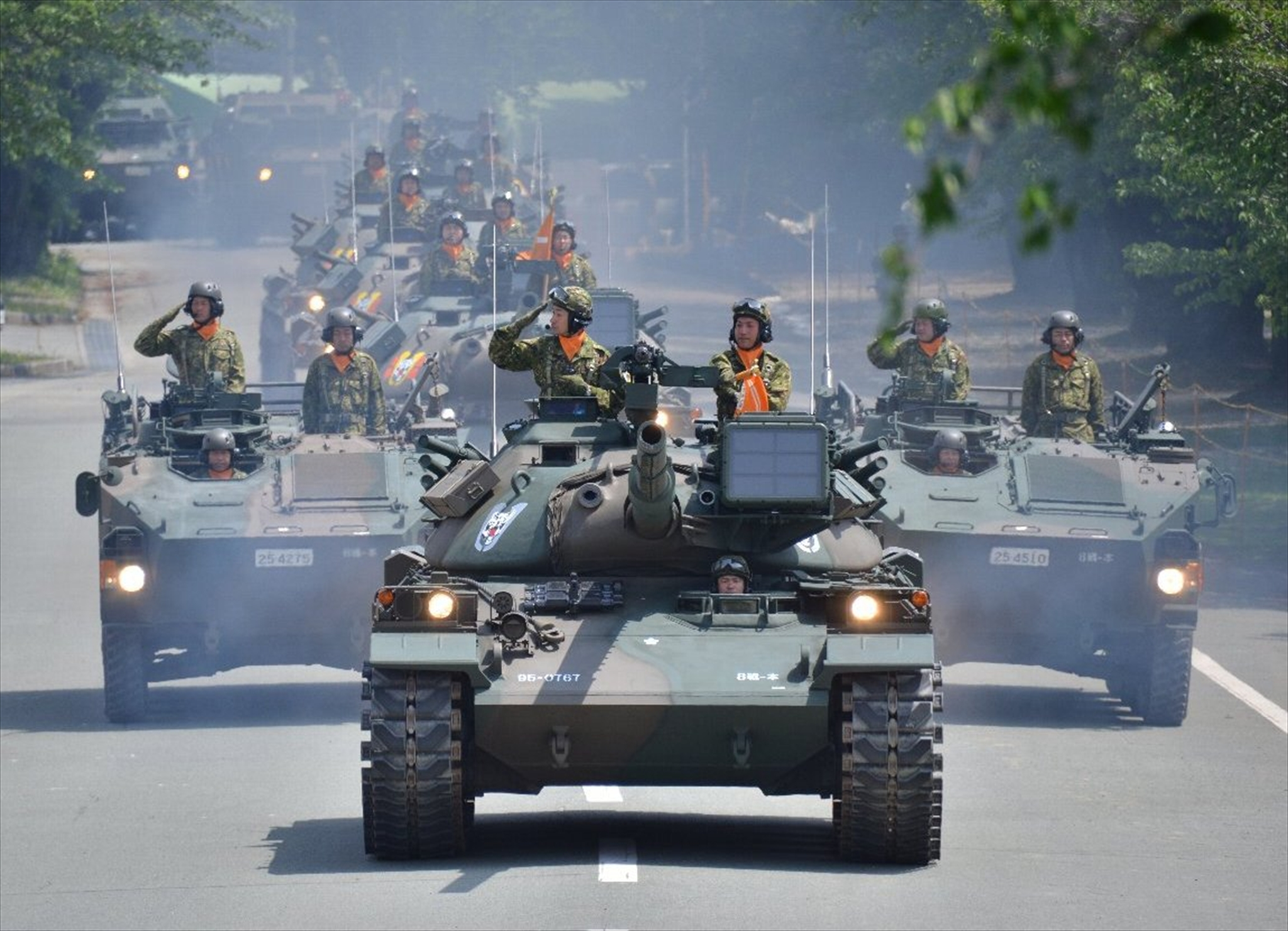 Title 第８師団創立５１周年及び北熊本駐屯地開設５６周年記念行事・観閲行進（４月２１日、北熊本駐屯地）.JPG Album Events and Public Relations (イベント・行事・広報活動等) 第８師団創立５１周年及び北熊本駐屯地開設５６周年記念行事・観閲行進